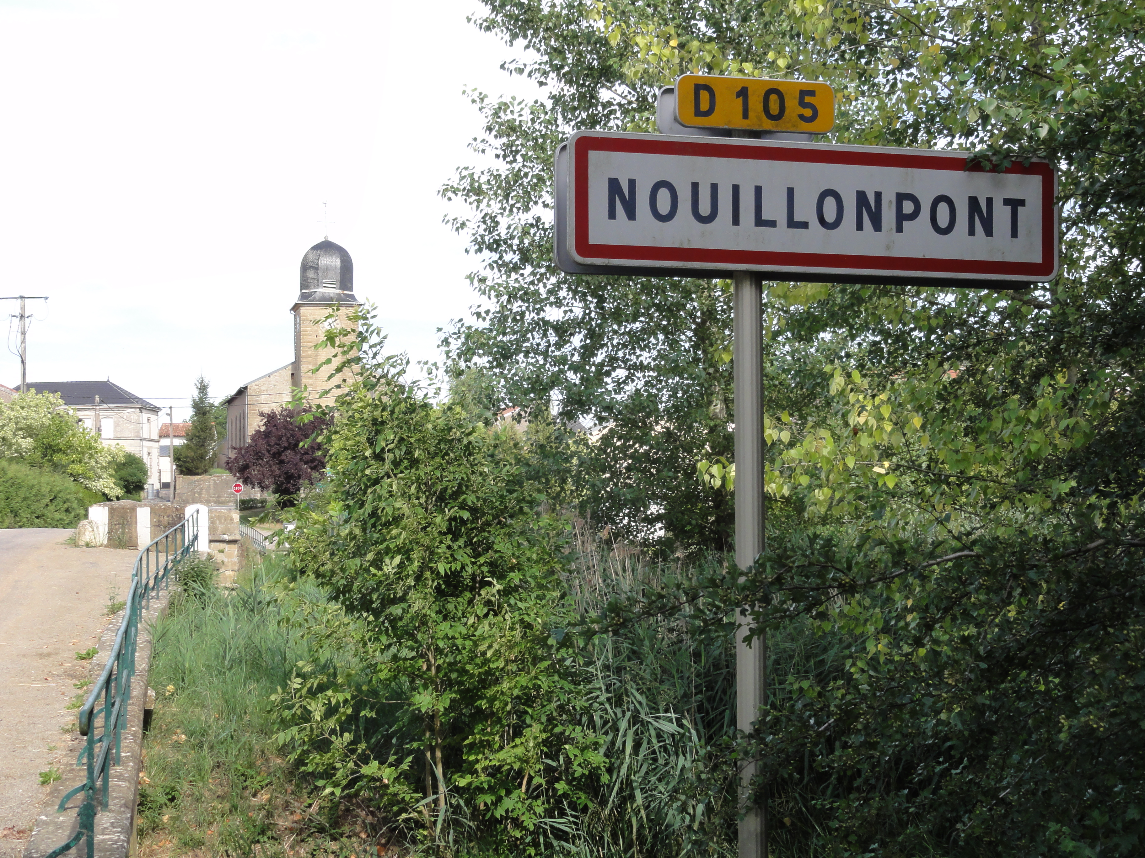 Nouillonpont (Meuse) city limit sign